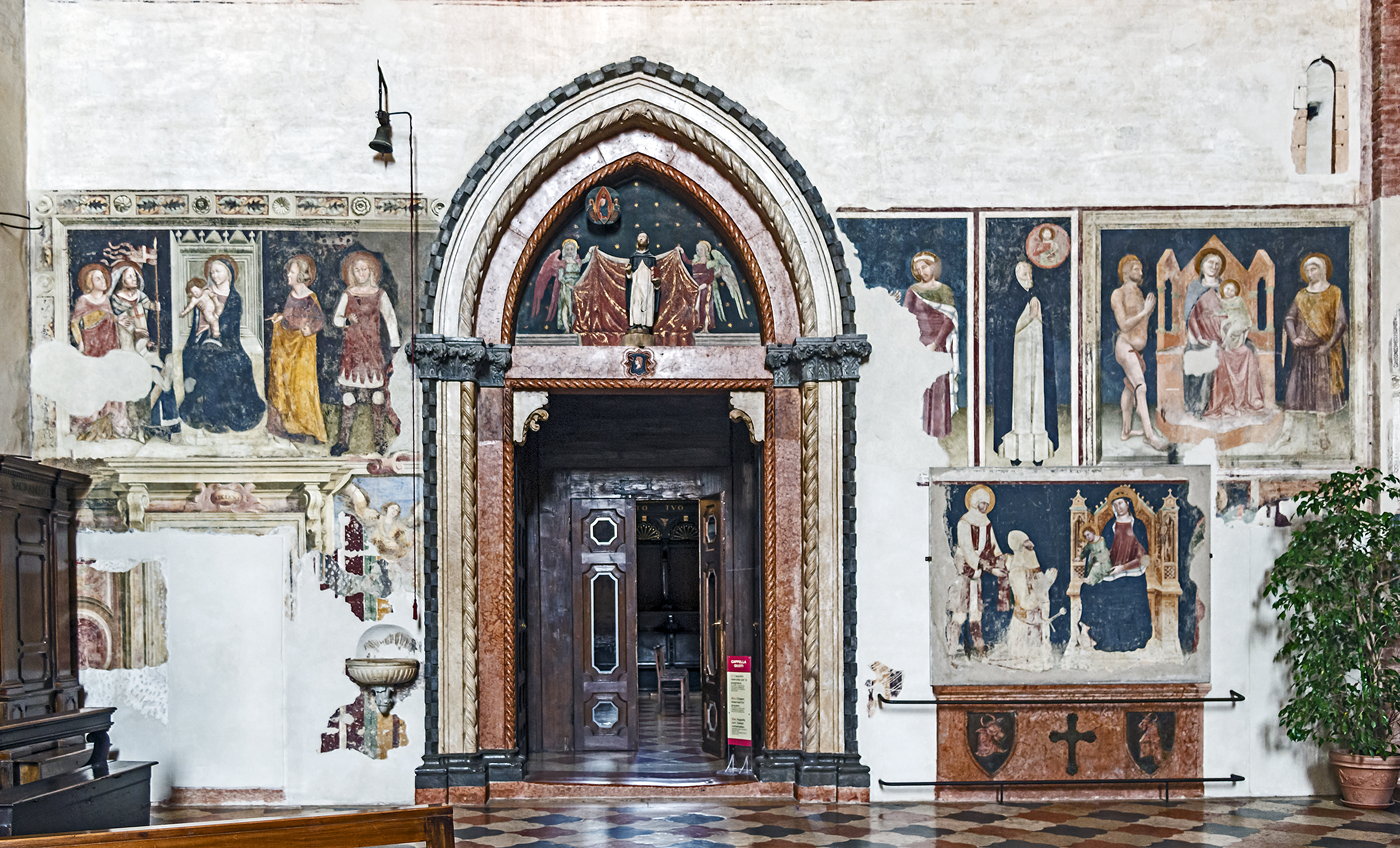 Basilica Santa Anastasia. In the center, the entrance to the chapel Giusti, the fourteenth century. All around the frescoes of the Second Master of San Zeno. At the bottom: the most famous fresco shows St Georges which presents Jacopo Beccucci, at the Virgin and Child .